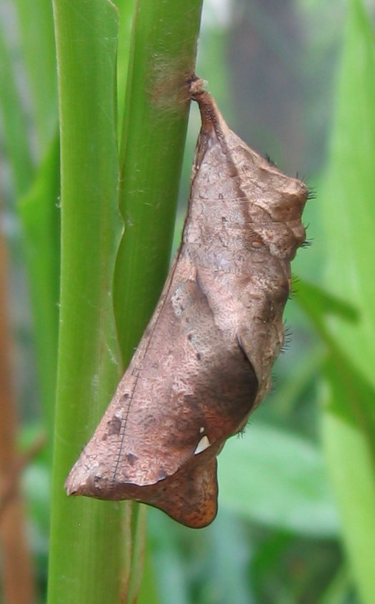 Pupa Botanischer Garten München-Nymphenburg